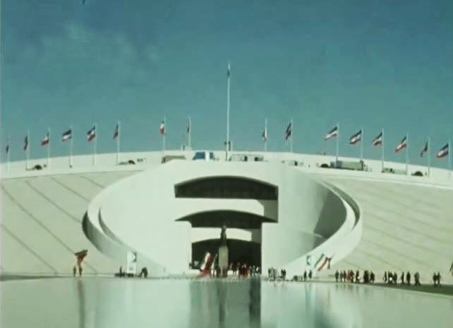 Azadi (Aryamehr) Stadium VIP entrance - West side